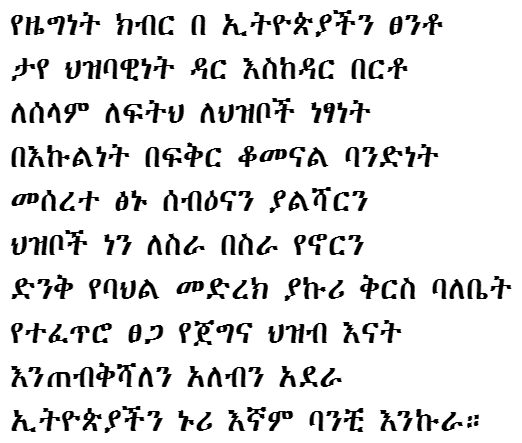 Whedefit Gesgeshi Woude Henate Ethiopia: the lyrics of national anthem of Ethiopia Use font "Abyssinica SIL" [2]